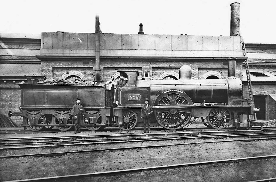 Photograph of LNWR engine No. 895 'Torch'